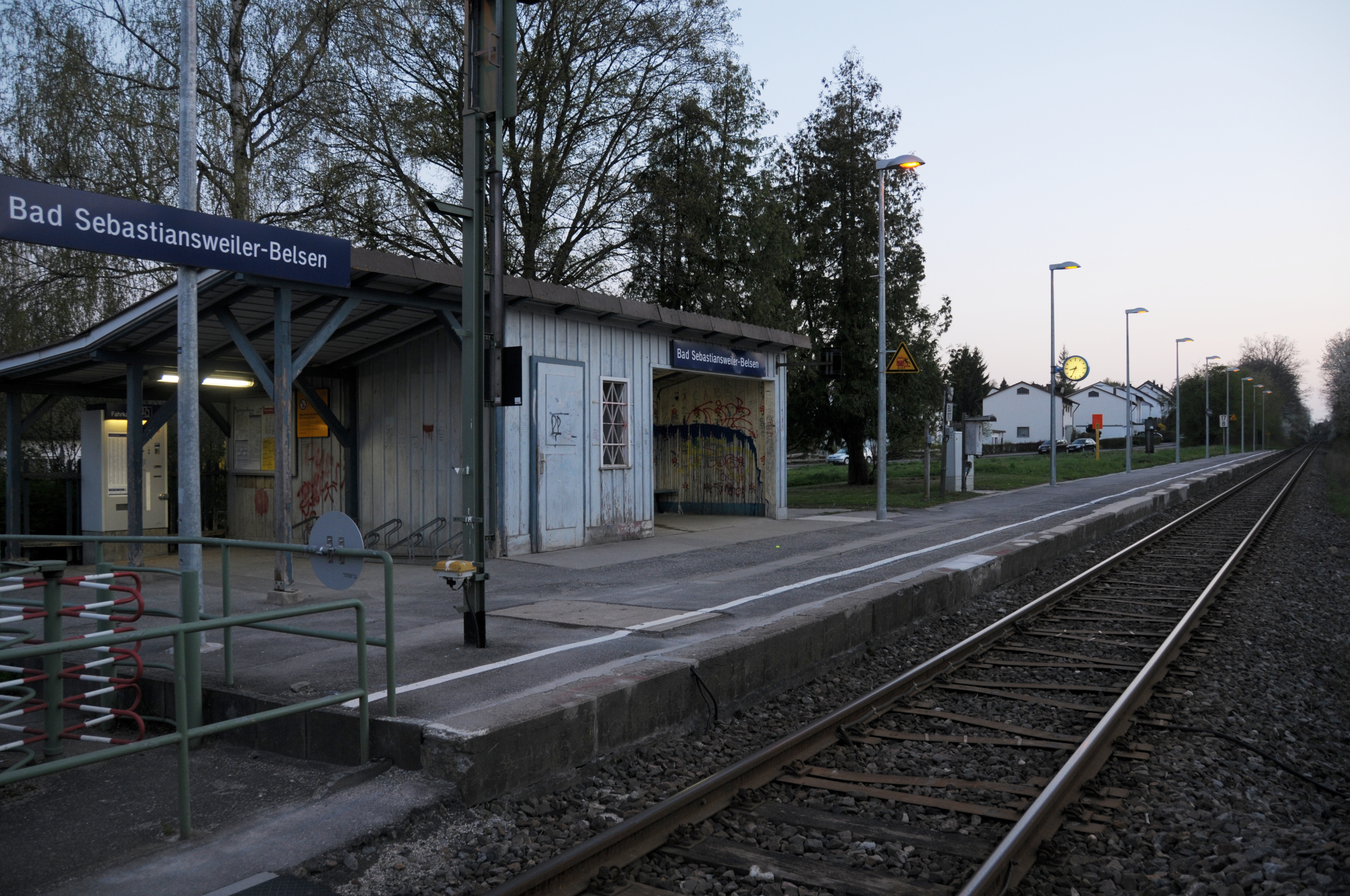 Stop station Bad Sebastiansweiler-Belsen in Mössingen